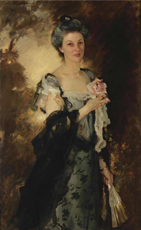 Mrs. William Crowninshield Endicott Jr. John Singer Sargent -- American painter 1903 Private collection Oil on canvas 142.2 by 88.5 cm (56 by 35 in.) signed John S. Sargent and dated 1903, u.l. Jpg: Sothebys